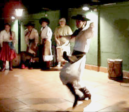 Folklore dance: Malambo. Argentina. Gaucho.